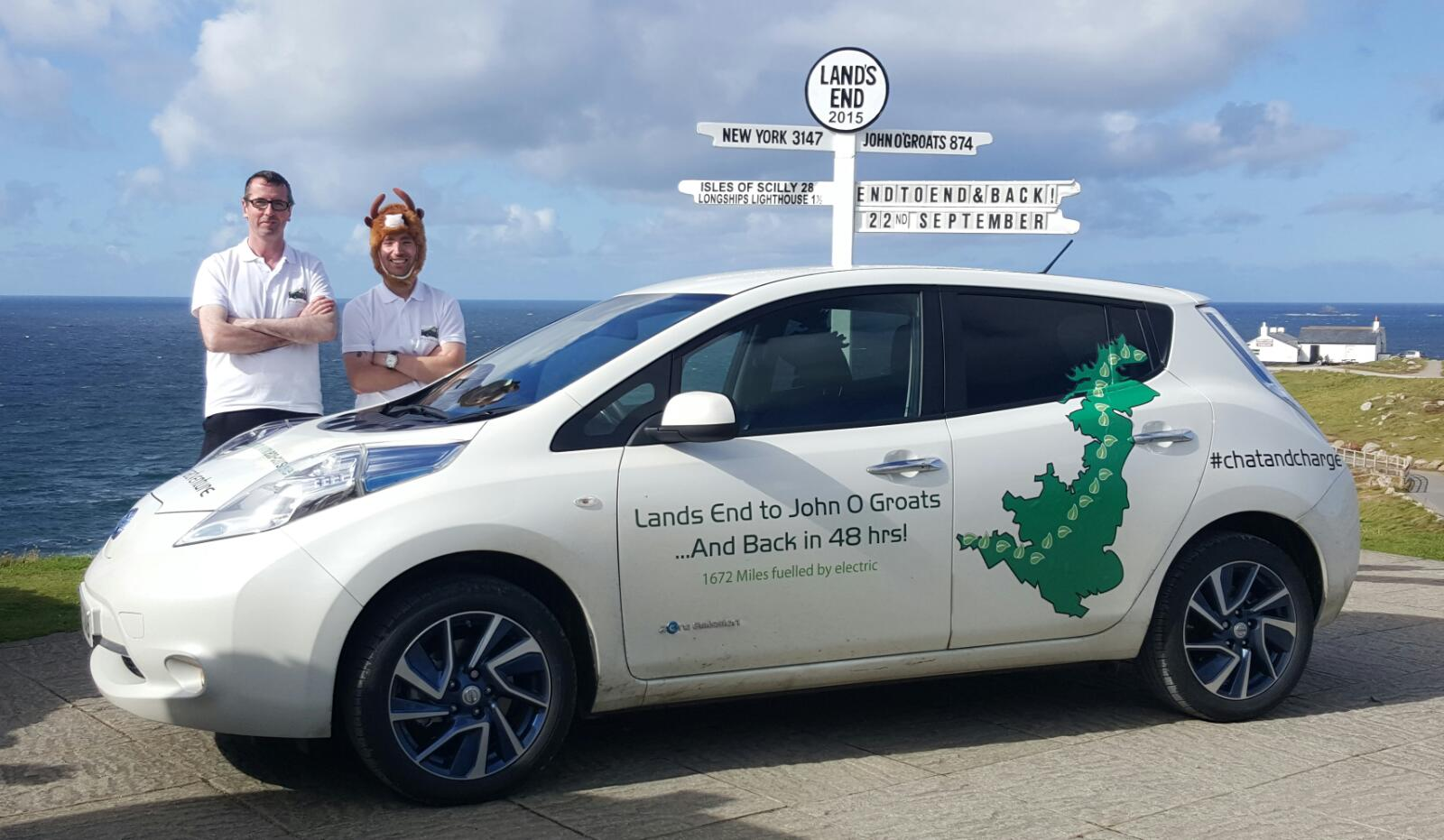 John O Groats to Lands End in a Nissan Leaf sept 2015